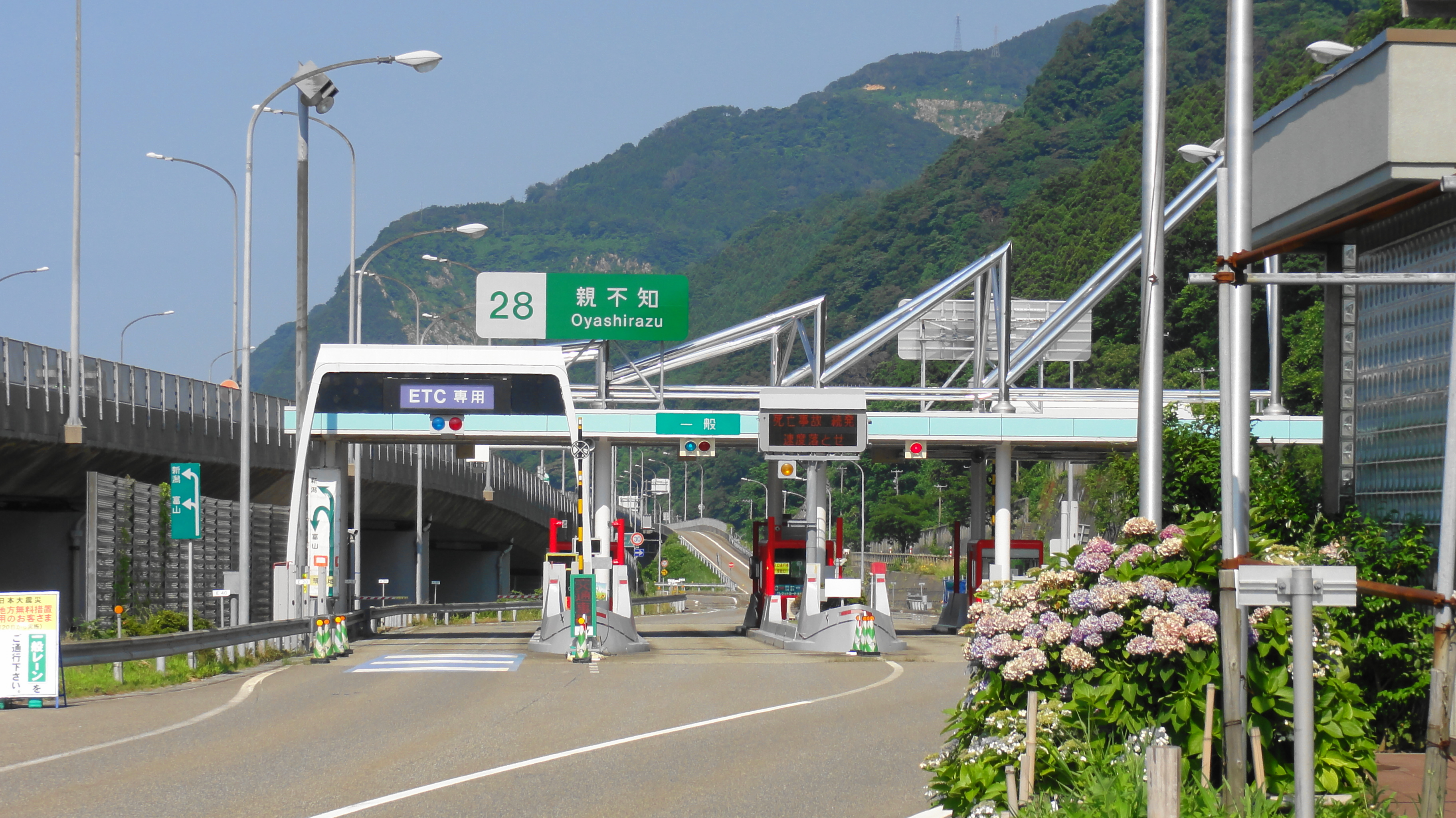 Oyashirazu Interchange in Joetsu City, Niigata Prefecture, Japan